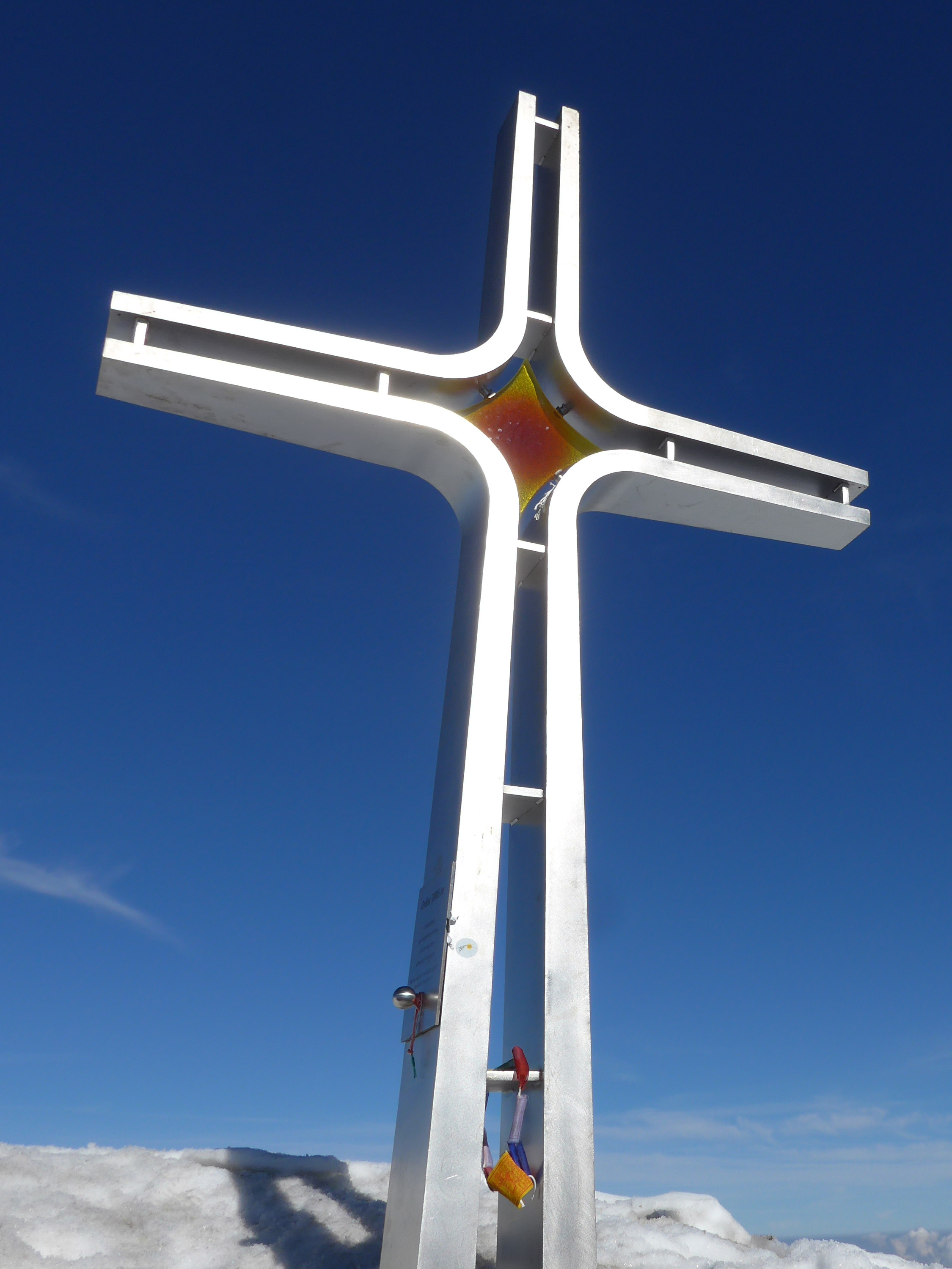 Cross at summit of Ortler